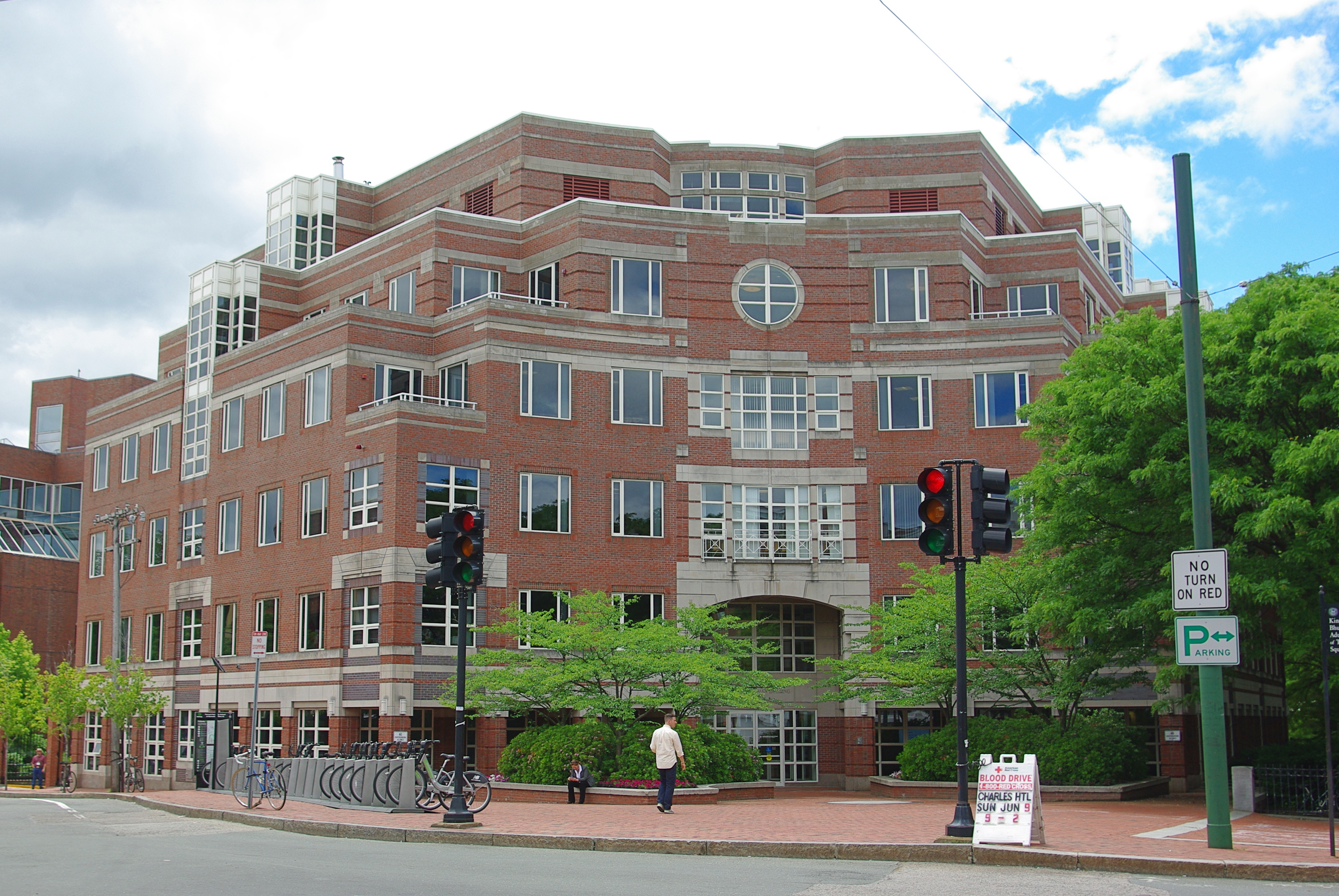 Taubman Building, John F. Kennedy School of Government, Harvard University